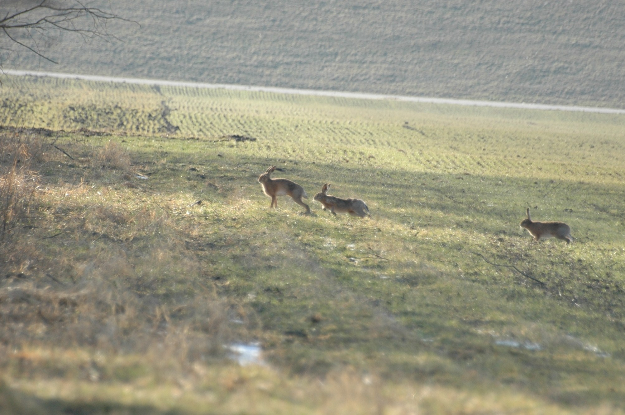 European hare